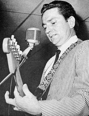 Grand Ole Opry publicity depicting Willie Nelson